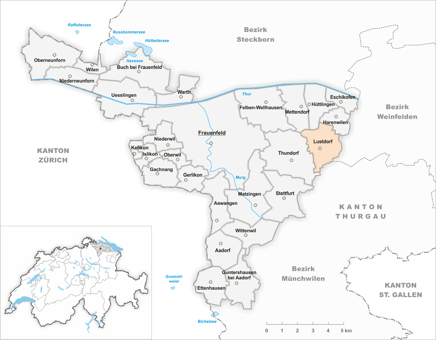 Municipality Lustdorf